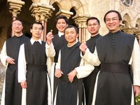 Small group of Vietnamese Cistercian monks standing in a cloister.